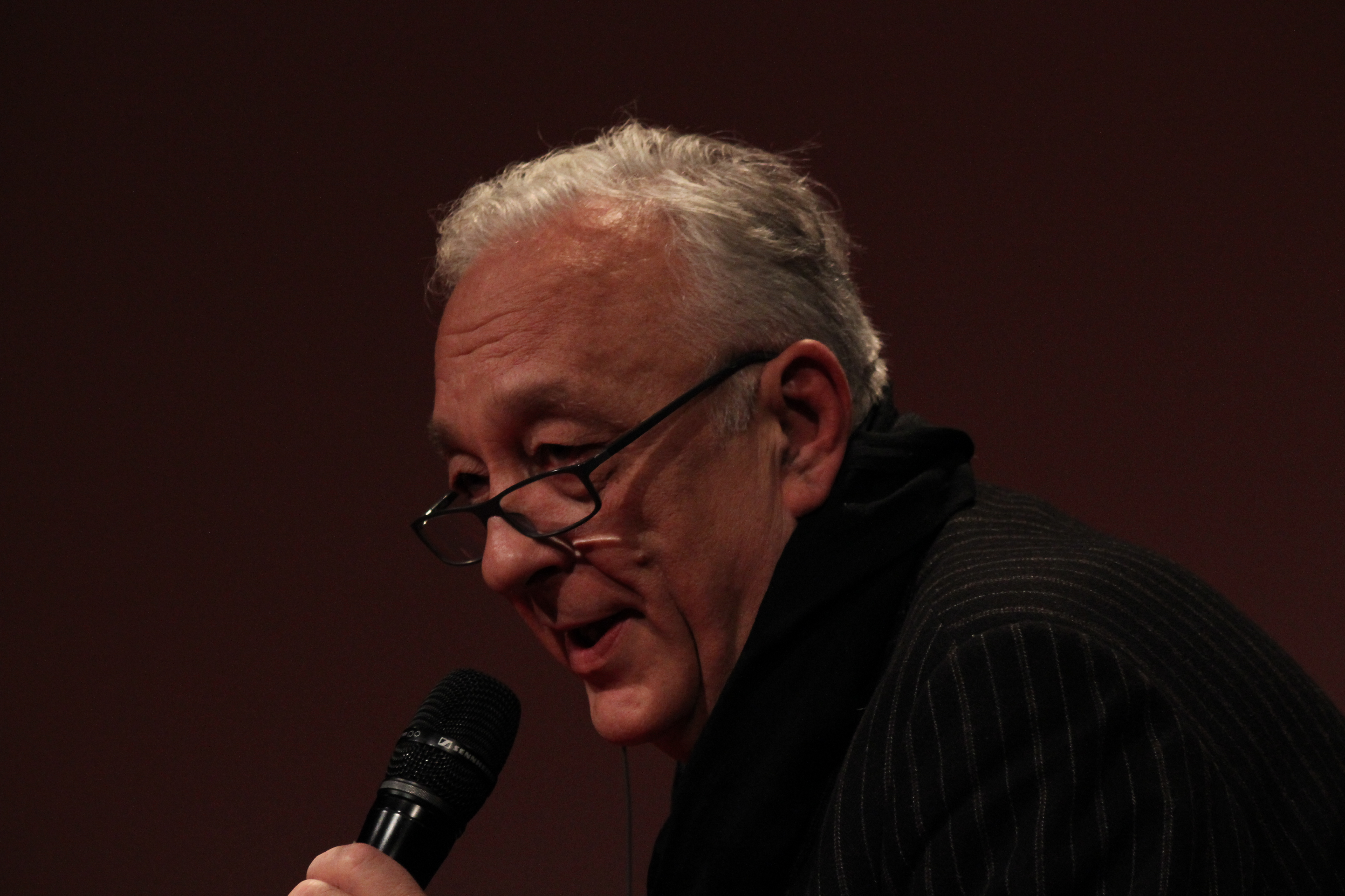 Pascal Mérigeau. Picture taken November 28, 2014 during the John Boorman Master Class in Paris, France. Personality rights warning Although this work is freely licensed or in the public domain, the person(s) shown may have rights that legally restrict certain re-uses unless those depicted consent to such uses. In these cases, a model release or other evidence of consent could protect you from infringement claims.